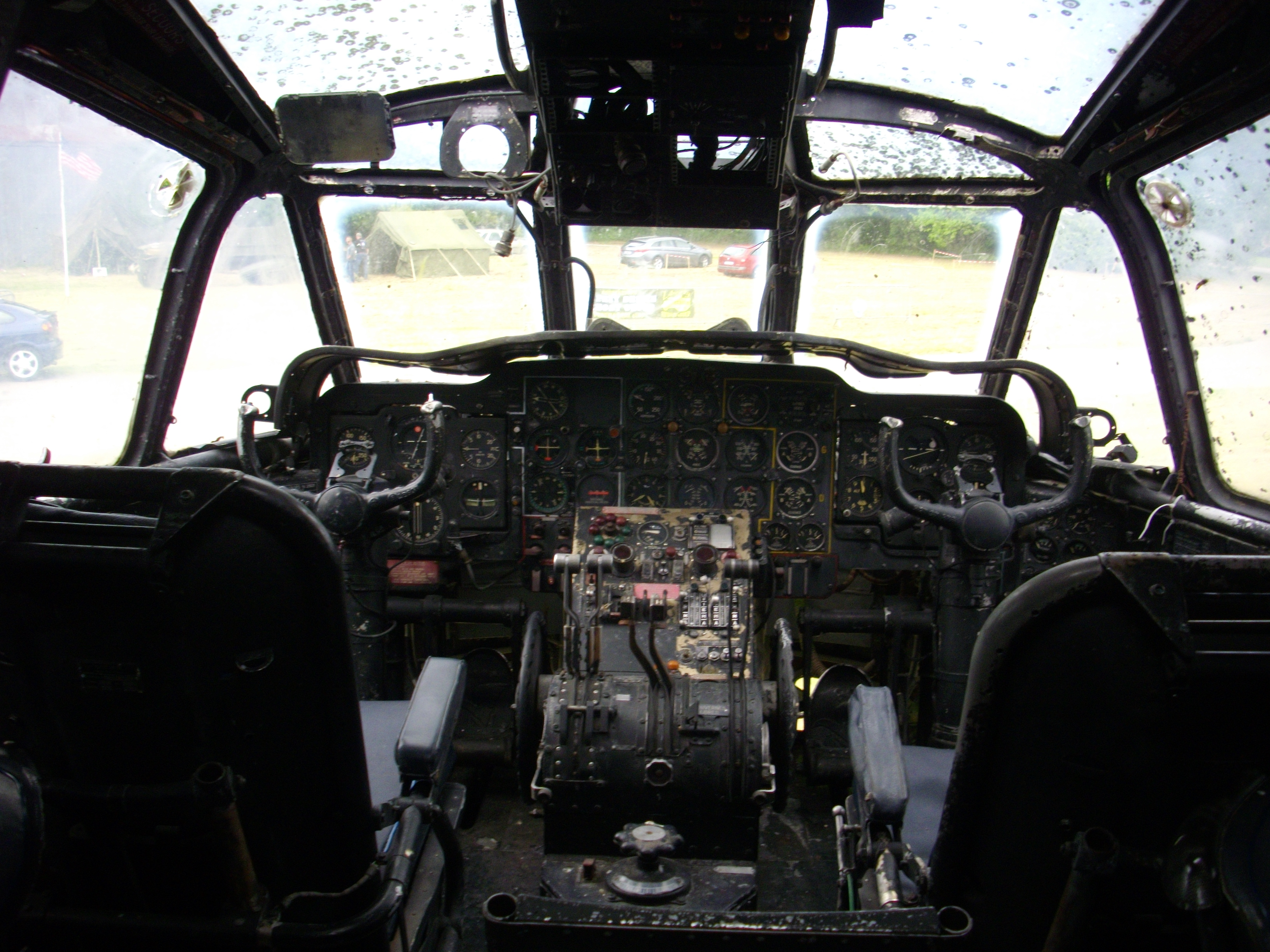 Nord 2501 Noratlas of Morbihan Aéro Musée (Monterblanc, Morbihan, France) during Les Ailes de la Victoire exhibition 2015